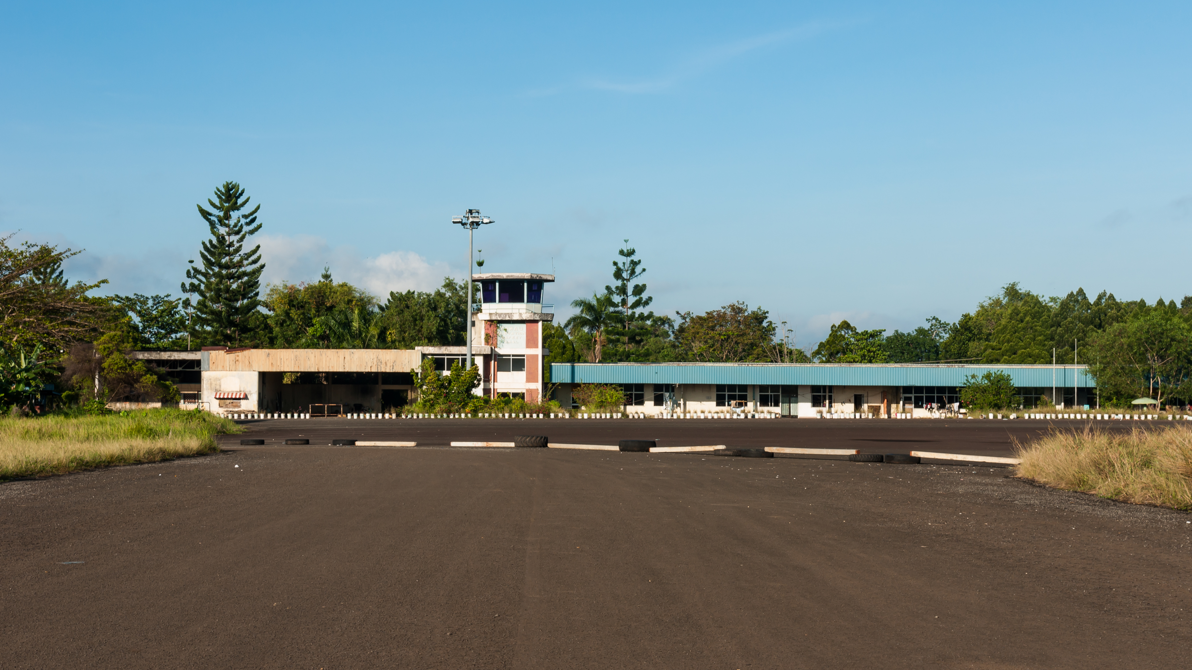 Tawau, Malaysia: Abandoned Tower ant terminal of the old Airfield of Tawau, Sabah, Malaysia.